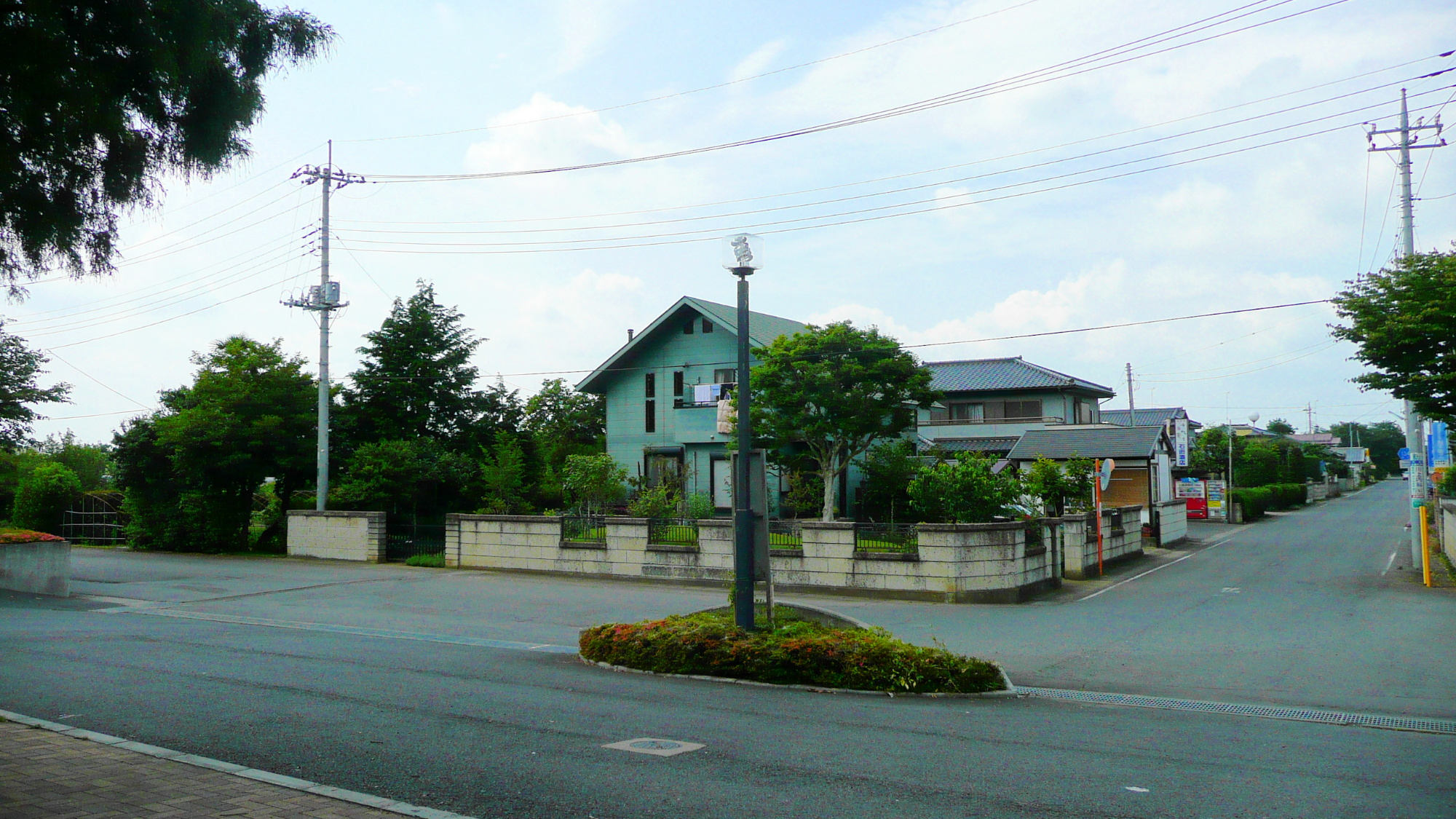 Mooka Railway Nishidai Station plaza